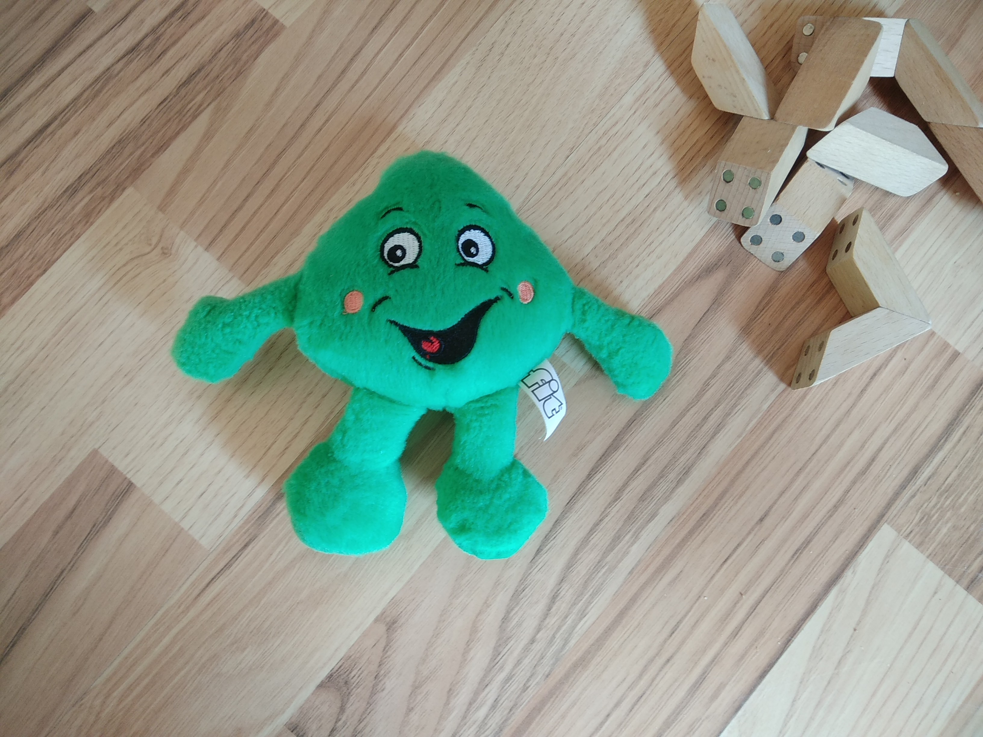 This is a toy version of Fitikus, who is a drop of green dishwashing liquid with arms and legs, and a happy face.